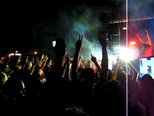 Armin Van Buuren at the Lizard Lounge in Dallas, Texas